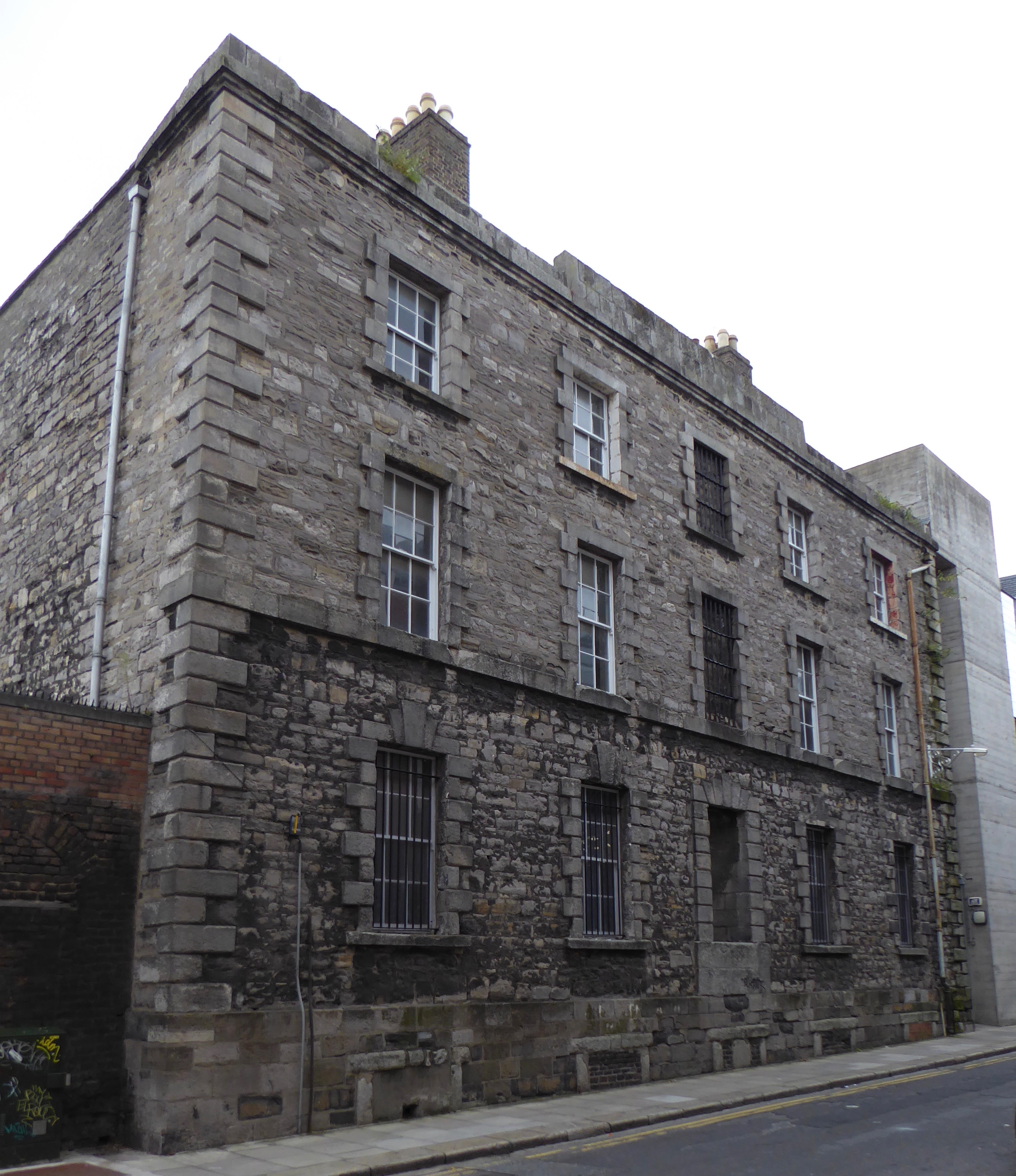 Back of Debtor's Prison backing on to Green Street, Dublin, situated between Halston Street backing on to Green Street